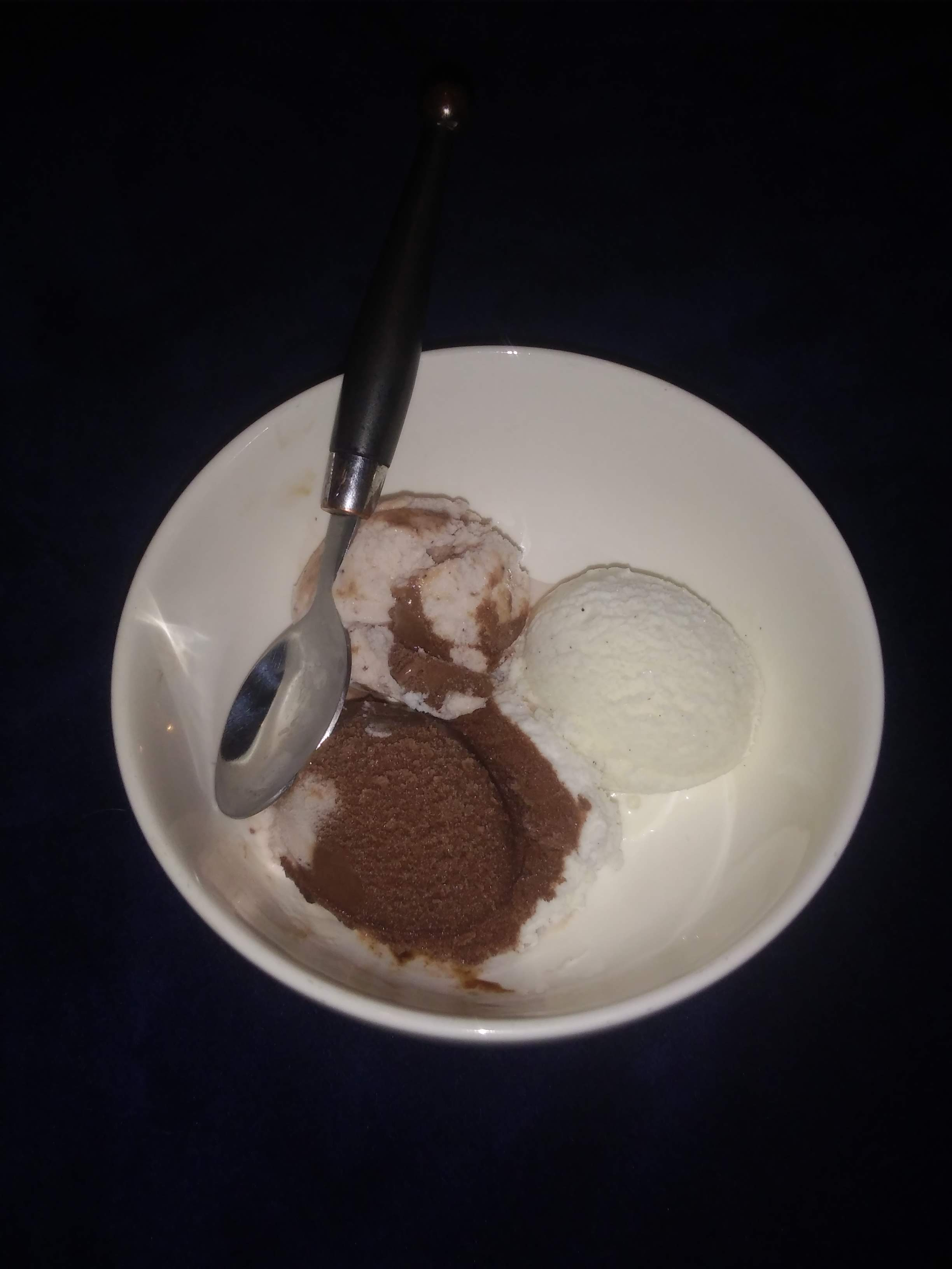 Strawberry ~ Chocolate ~ Vanilla